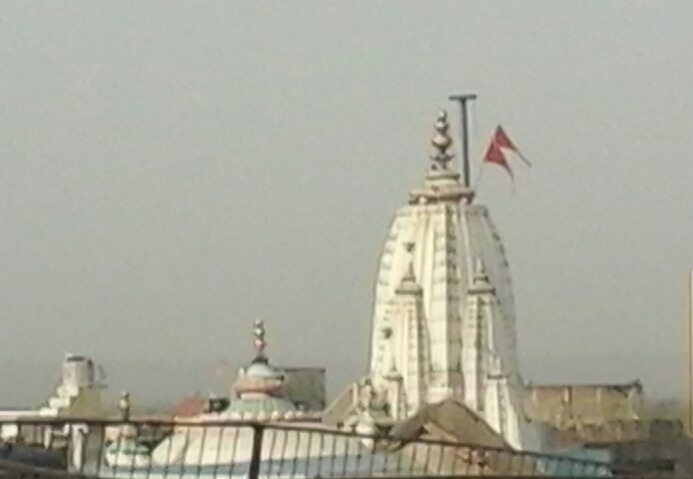 The image was taken on a roof, approx. 200 meters away from the temple. It shows the topmost view of the temple.